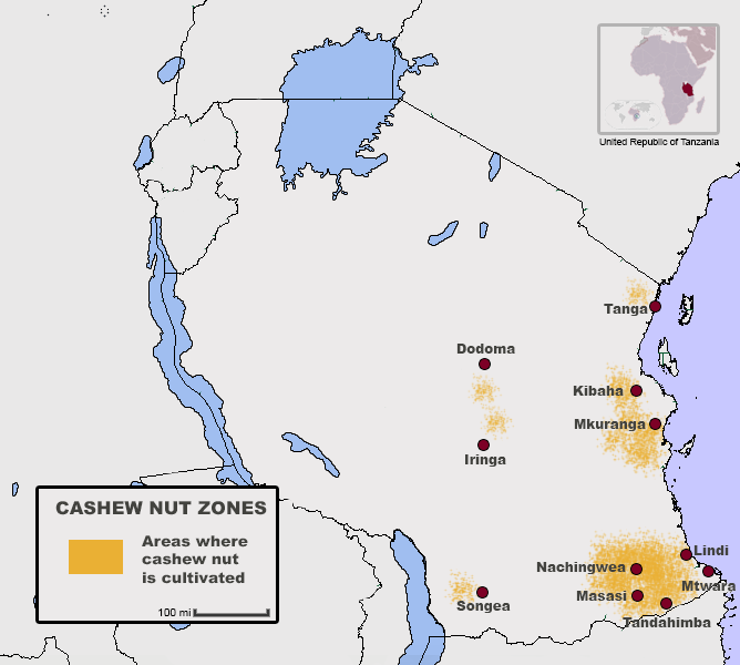 Map showing areas where cashew nuts are grown in Tanzania